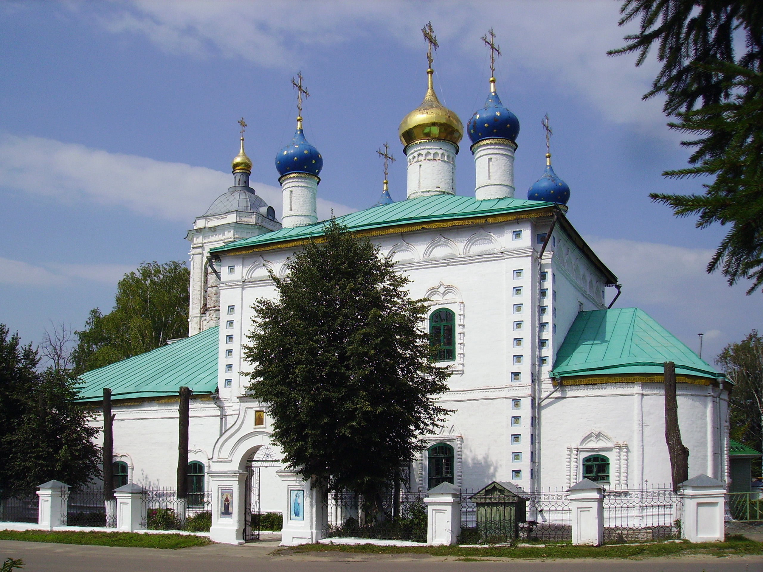 Kovrov. Southern facade of Nativity Cathedral Title:Ансамбль Христорождественского собораPlace:Владимирская область, Ковров, улица Володарского, 1 (Першутова улица, 15)Built:реконструкции: 1778 г., XIX в.Approved:Указ Президента Российской Федерации № 176 от 20.02.1995